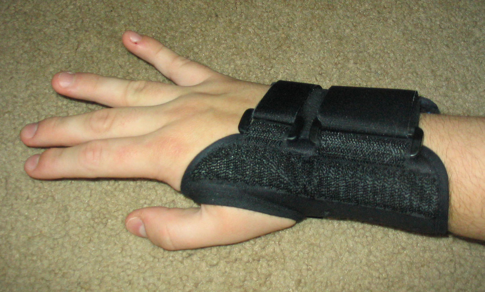 A carpal tunnel splint to keep the wrist straight. Taken of own hand, September 6, 2005.